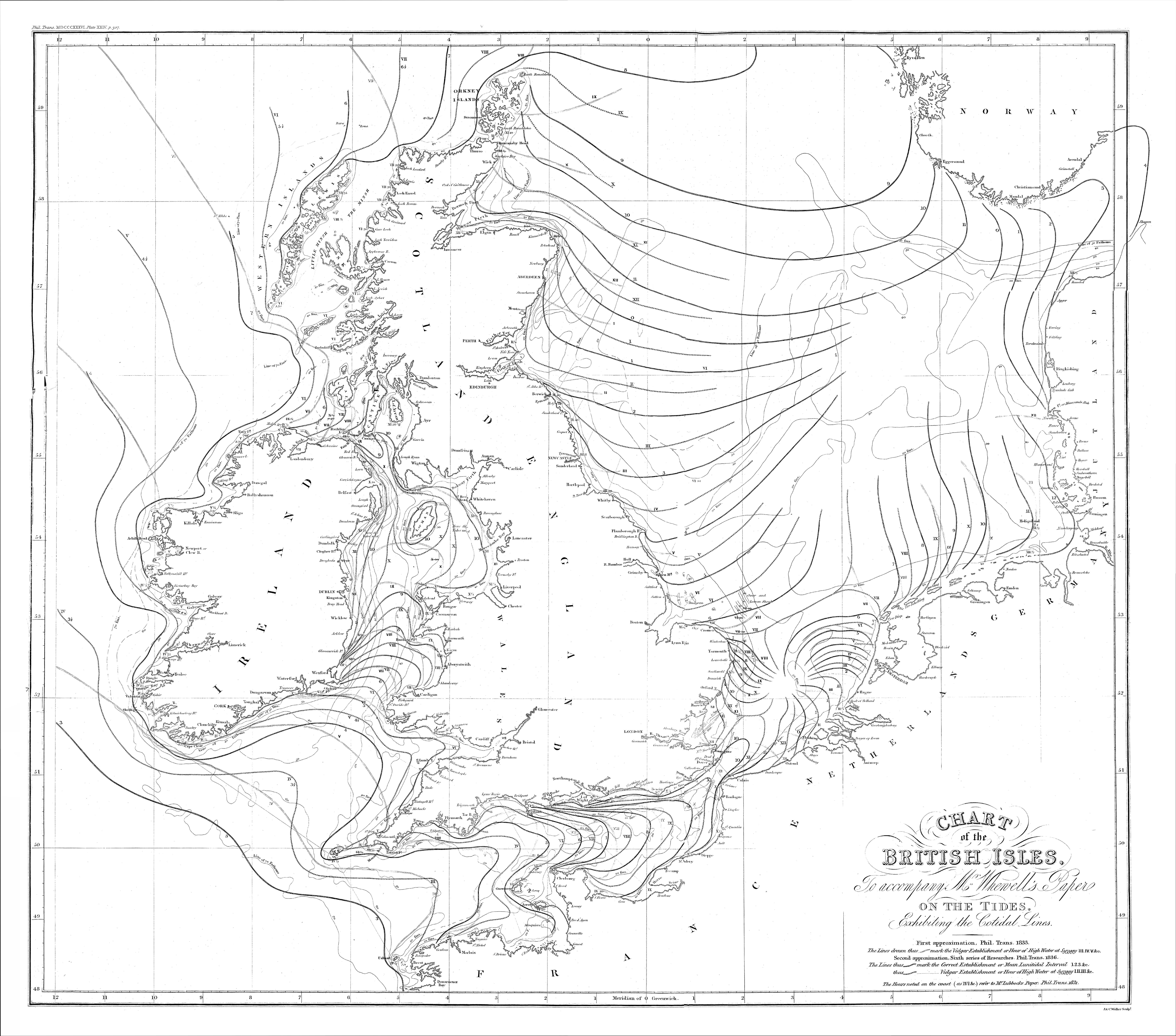 Chart of the coasts of Britain Ireland and the North Sea showing cotidal lines. Plate 24 p307 from Whewell, William (1836). "On the results of an extensive system of tide observations made on the coasts of Europe and America in June 1835". Philosophical Transactions 126: 289-341.